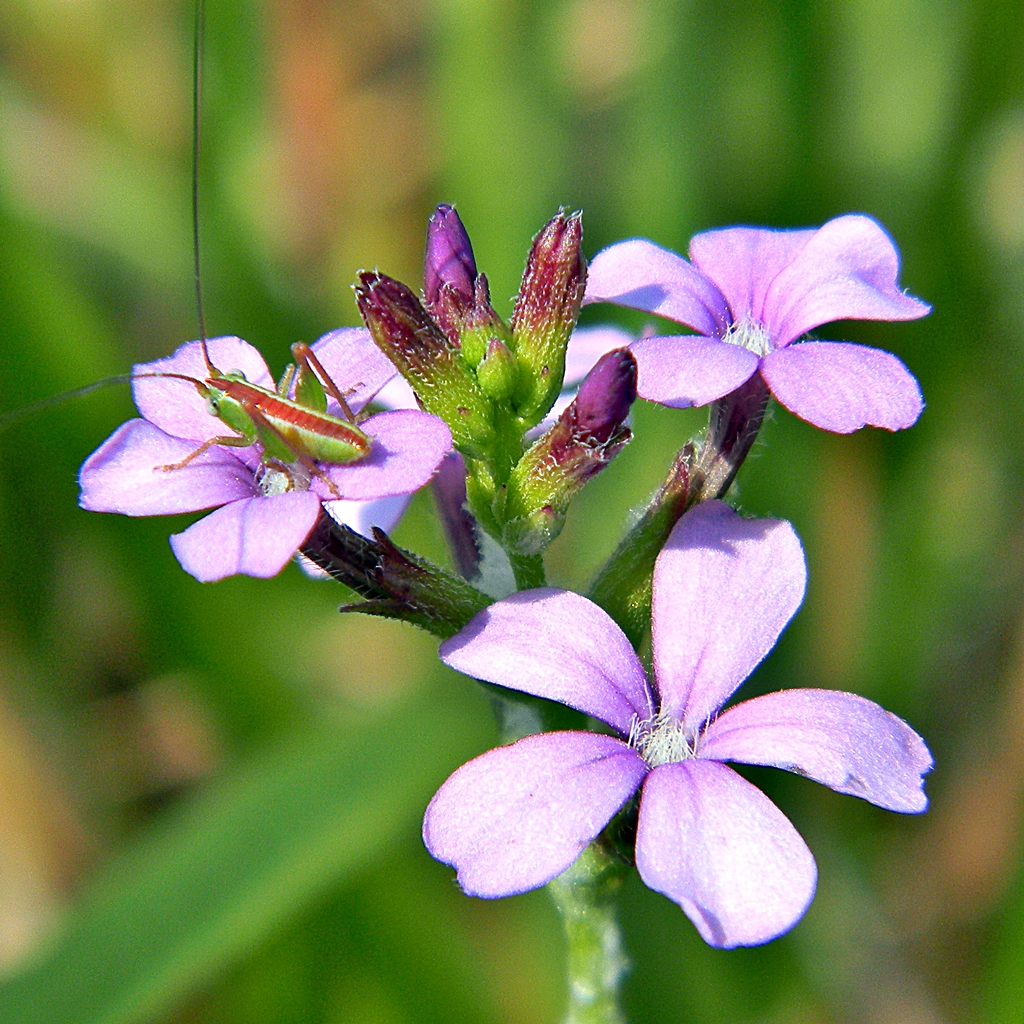 Buchnera americana and the resident baby Katydid along a path at Sweetbay Natural Area, Palm Beach County, Florida.